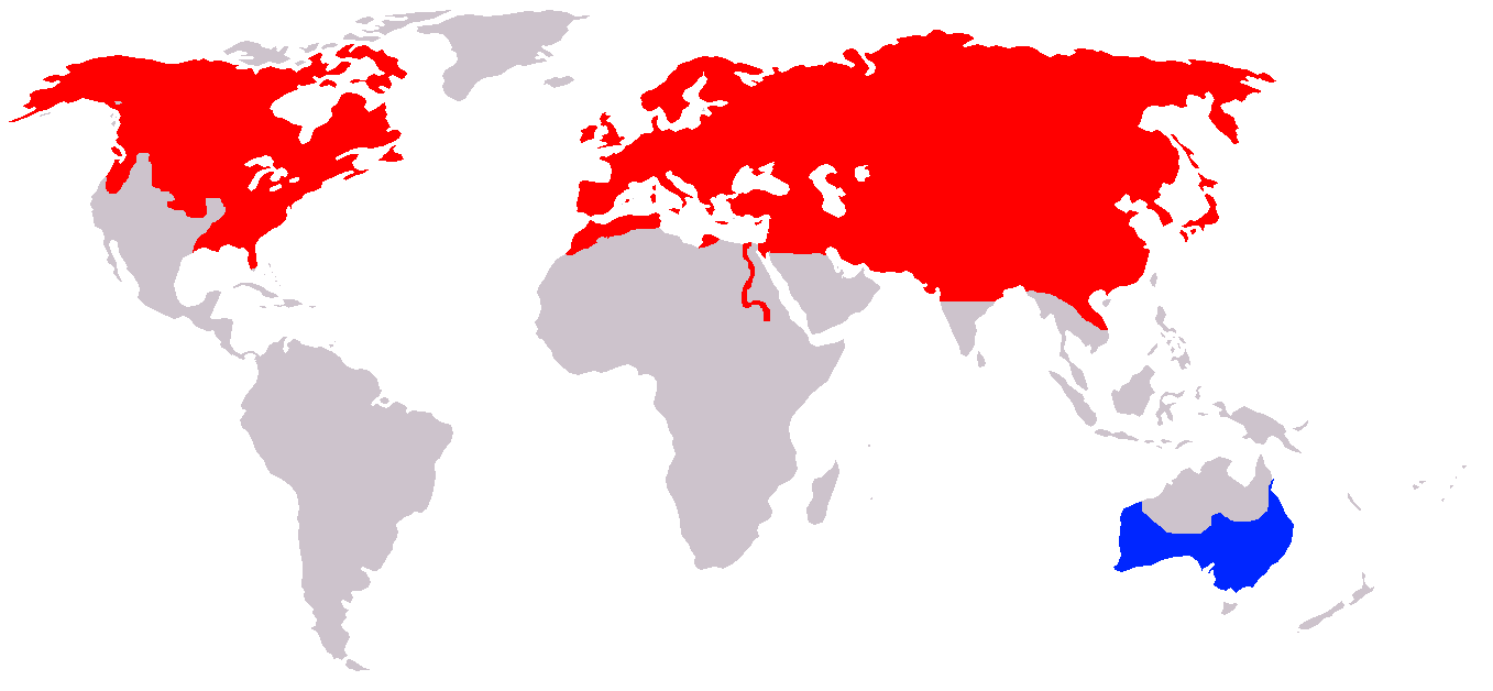 Distribution of the Red Fox (Vulpes vulpes)